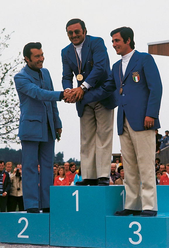 Left-right: Michel Carrega, Angelo Scalzone, Silvano Basagni, 1972 Olympics.